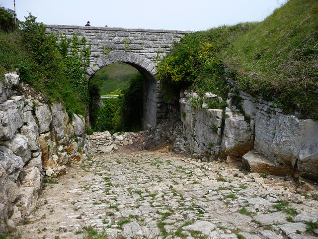 Track bed of the old Merchants Railway Portland. This branch accessed the Waycroft Quarries. The Bridge carries New Ground